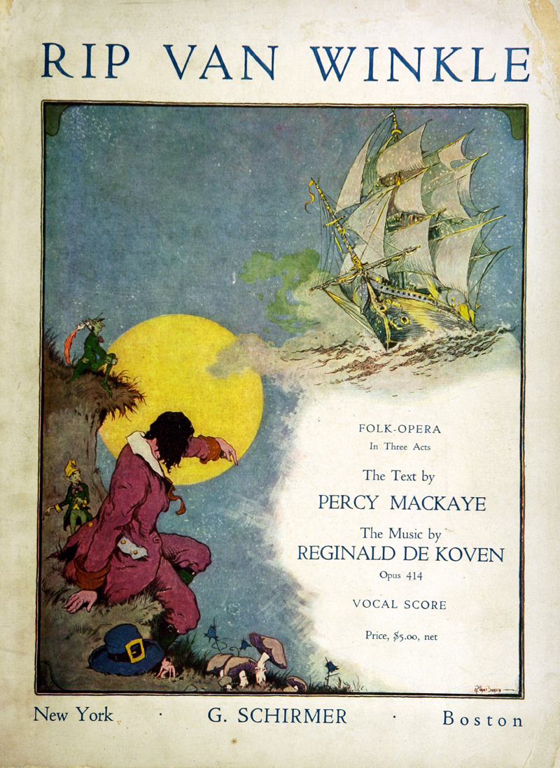 Cover image of "Rip Van Winkle" opera by Reginald De Koven, 1919, from the Frances G. Spencer Collection of American Popular Sheet Music, Baylor University